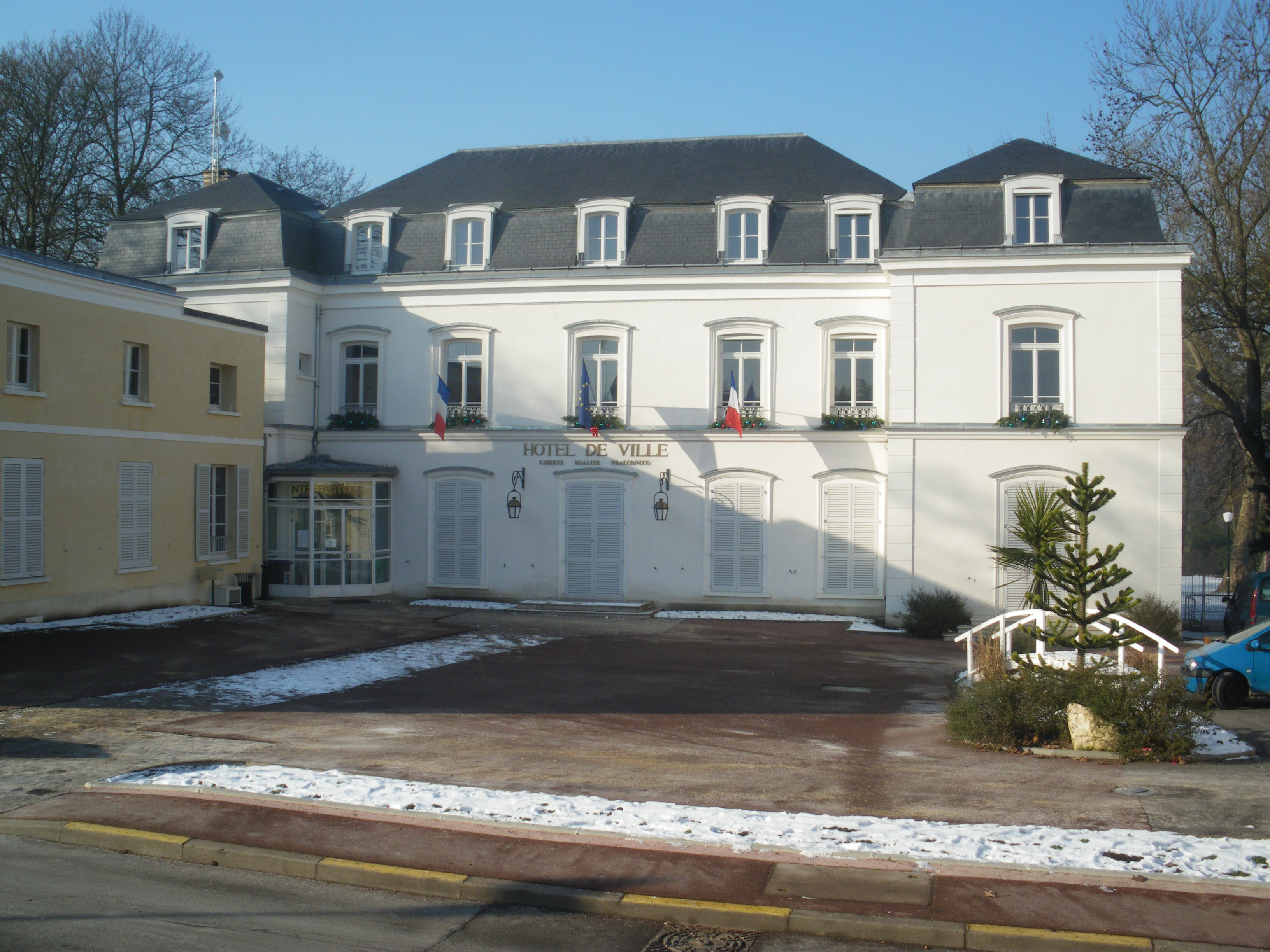 Tonw Hall of Saint Mich sur Orge